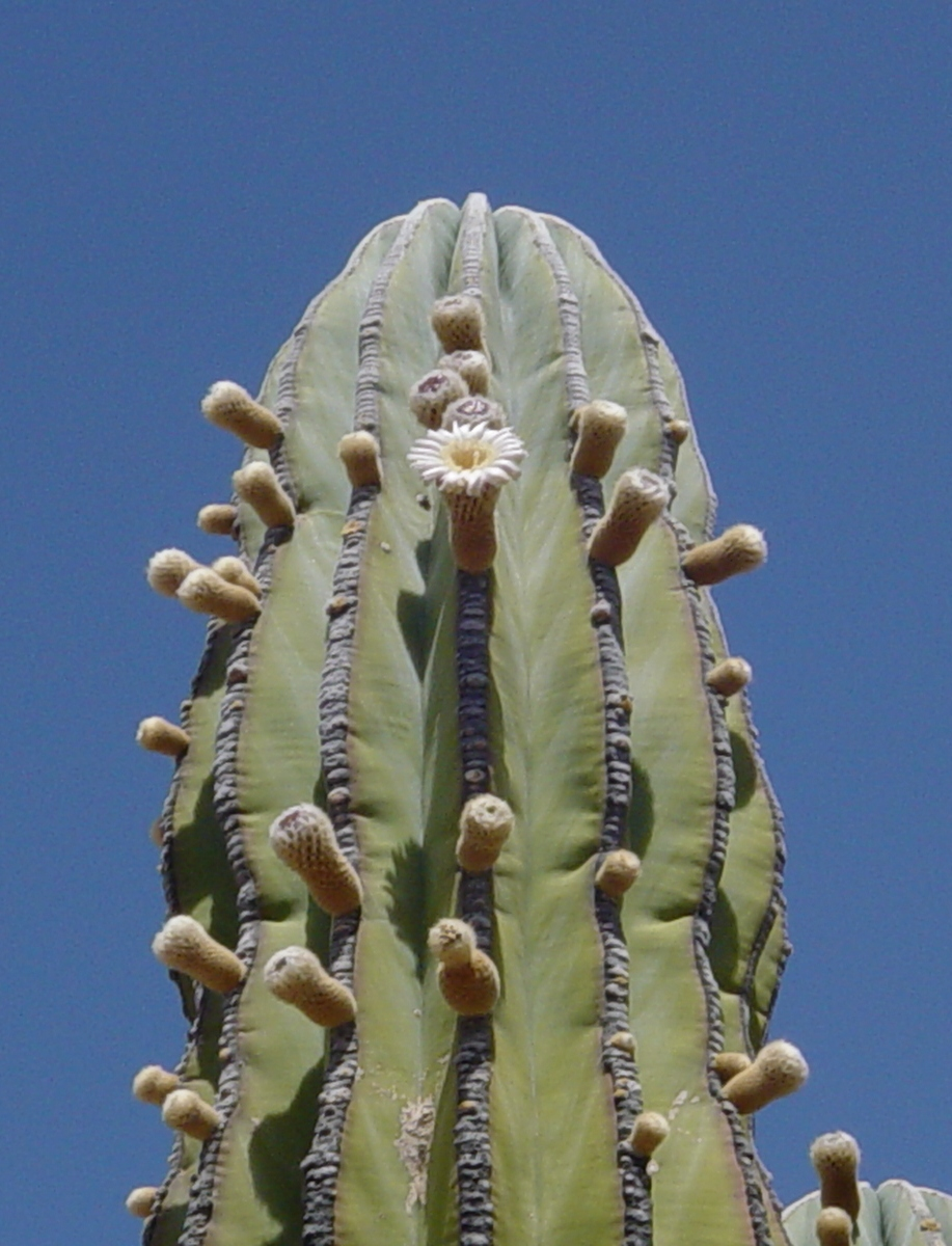 cardon (sahueso) Pachycereus pringlei in flower, Sonora, Mexico